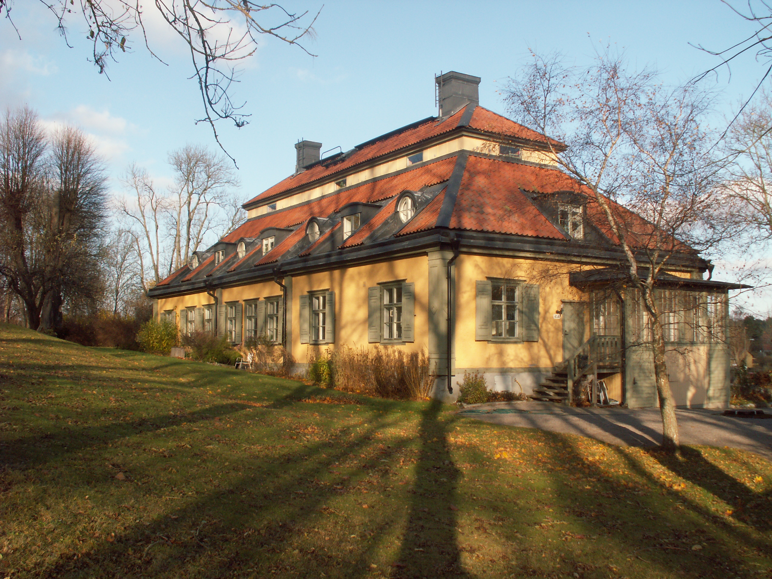 The Långbro gård estate in southern Stockholm